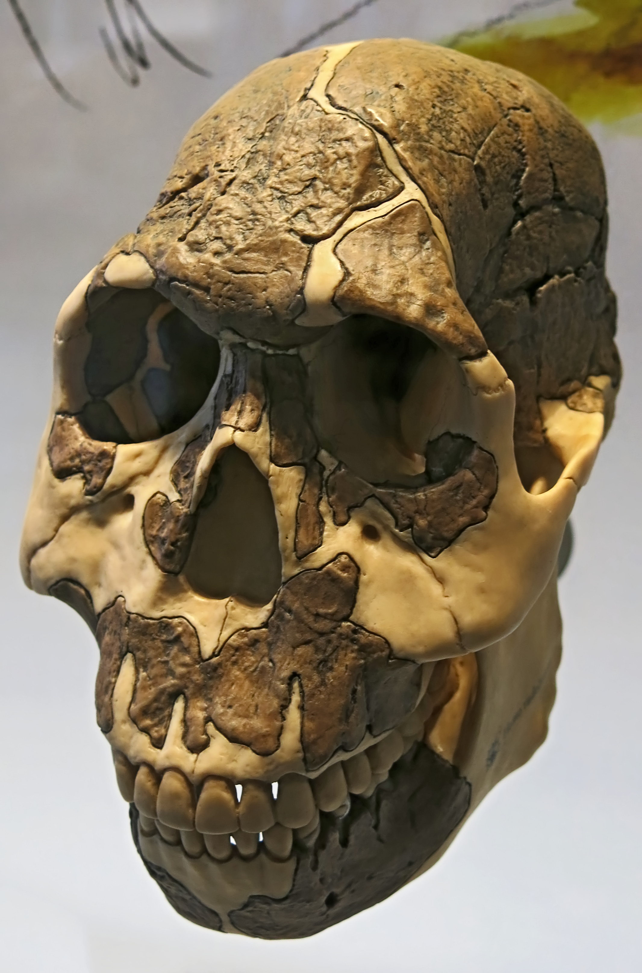 Reconstructed KNM-ER 1470 skull at the Natural History Museum, Vienna